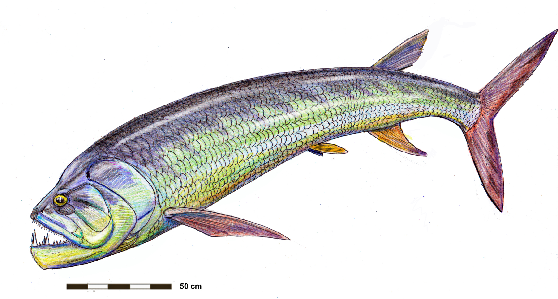 Aidachar paludalis, giant ichthyodectiform fish from Middle Cretaceous (Cenomanian) of Central Asia